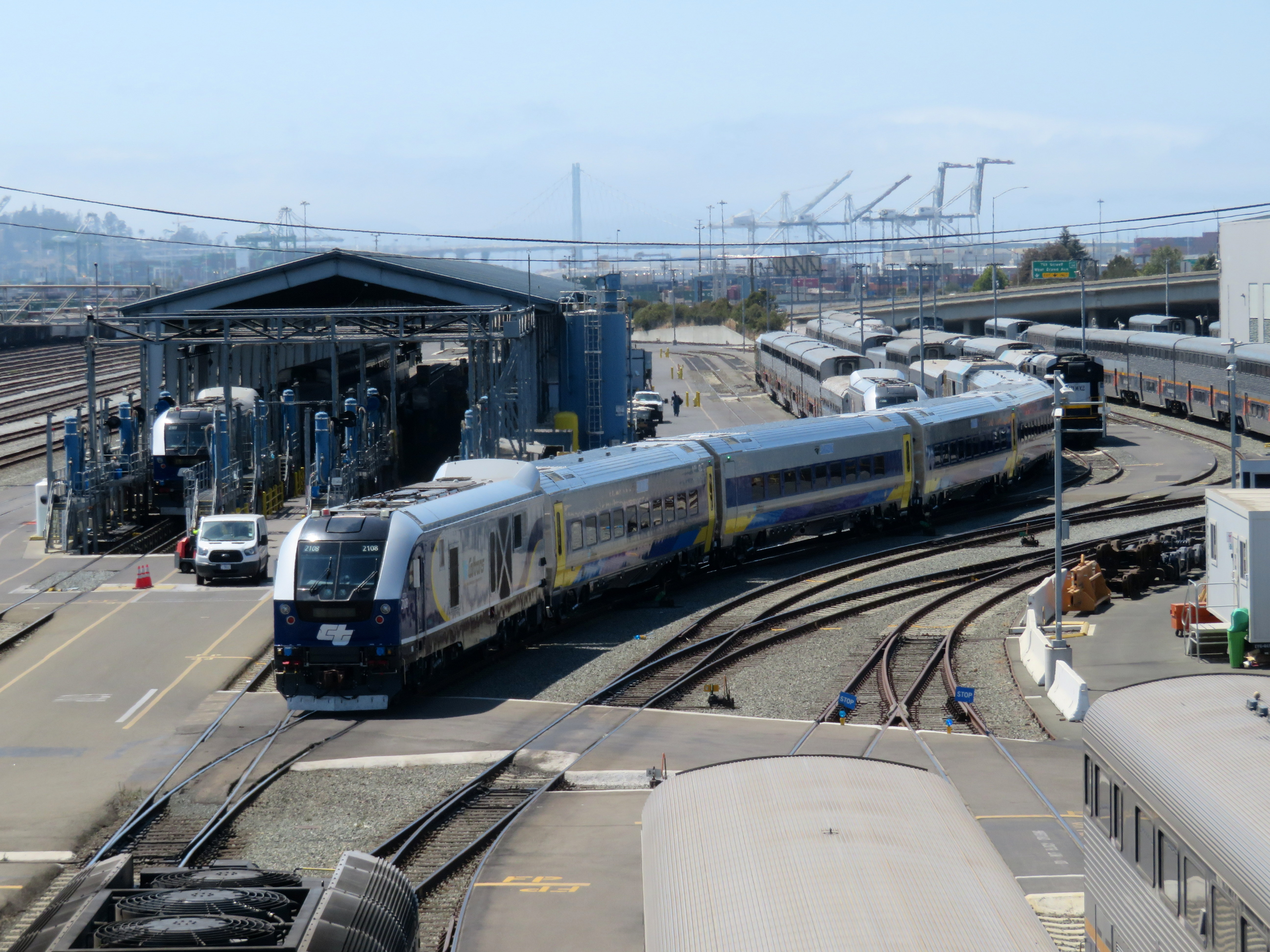 A test train of new Siemens Venture cars at Oakland Maintenance Facility in July 2020